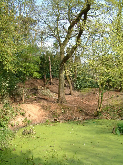 Moseley Bog. Moseley Bog, a Local Nature Reserve, is an area of ancient woodland near Moseley, Birmingham, and close to Sarehole Mill. Moseley Bog lies approximately 3 miles south of Birmingham City Centre. This is a woodland explored by Tolkien during the few years he lived in the area as a young child. It is made up of both wet and dry woodland together with patches of fen vegetation which has developed on the site of an old millpond. There is also an area of secondary woodland, which has developed on the old gardens along the eastern boundary.